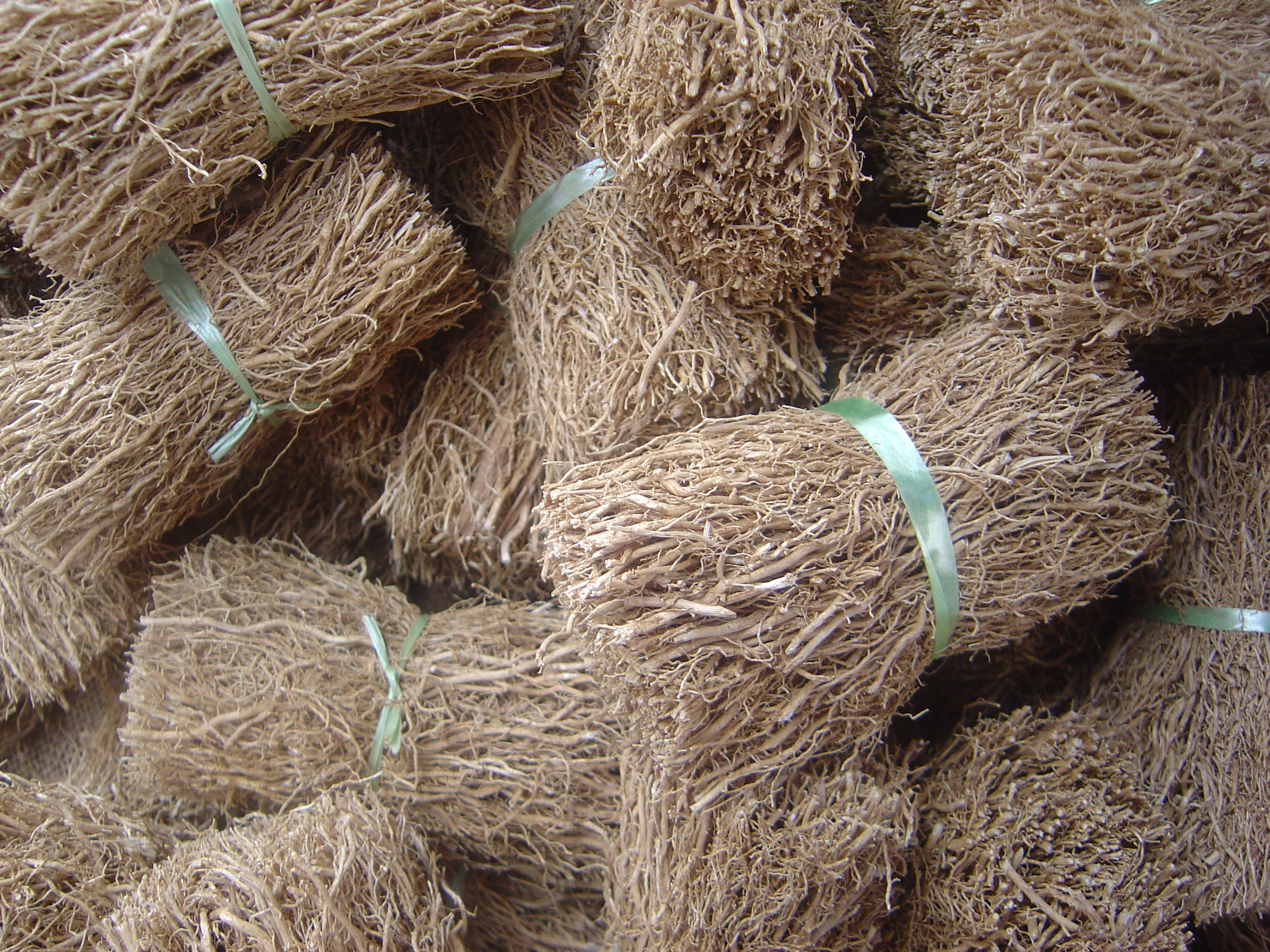 Vetiveria zizanoides roots sold in bunches (Réunion Island).